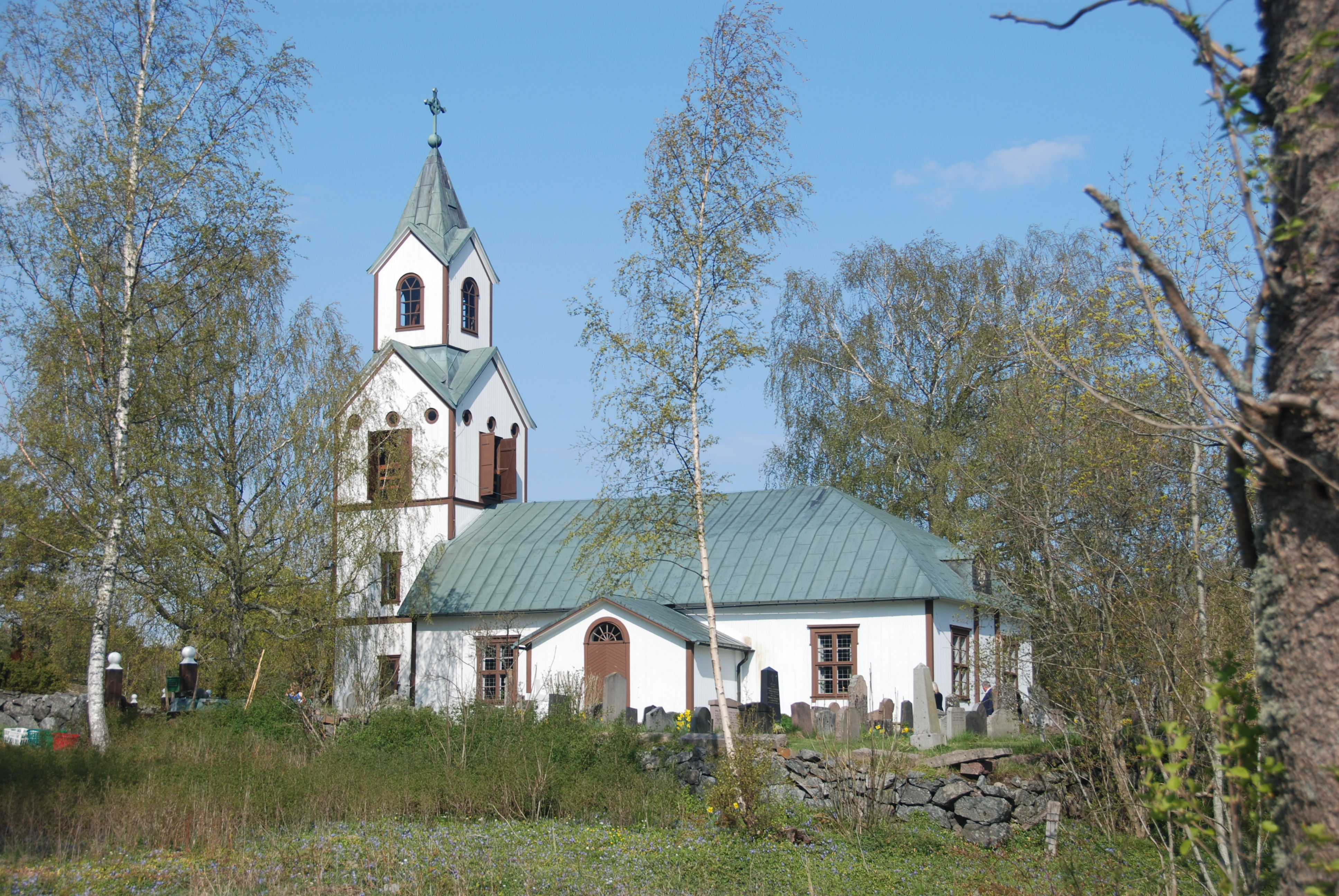 The island church at Möja, Stockholm archipelago